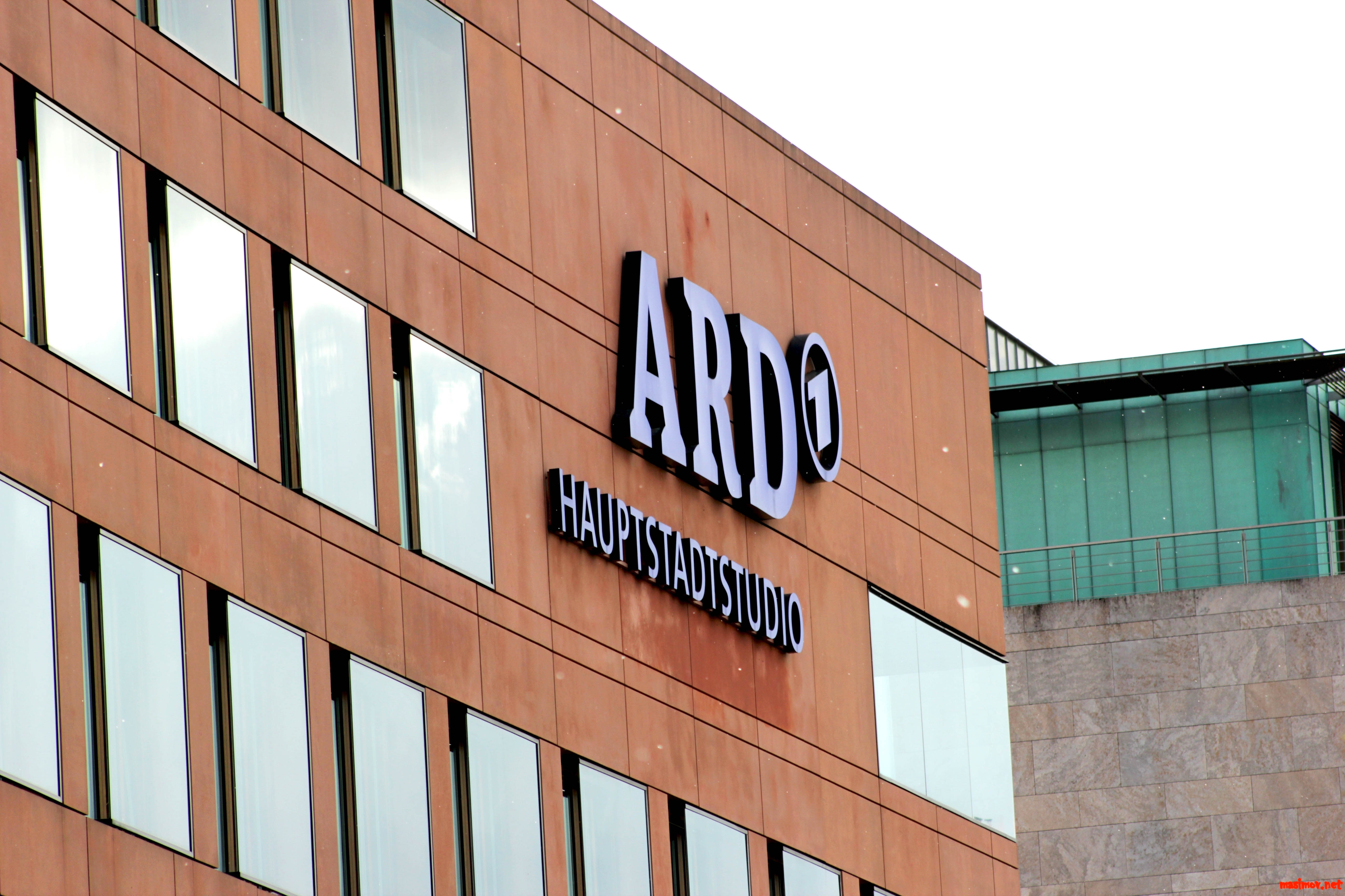 ARD - Hauptstadtstudio in Berlin